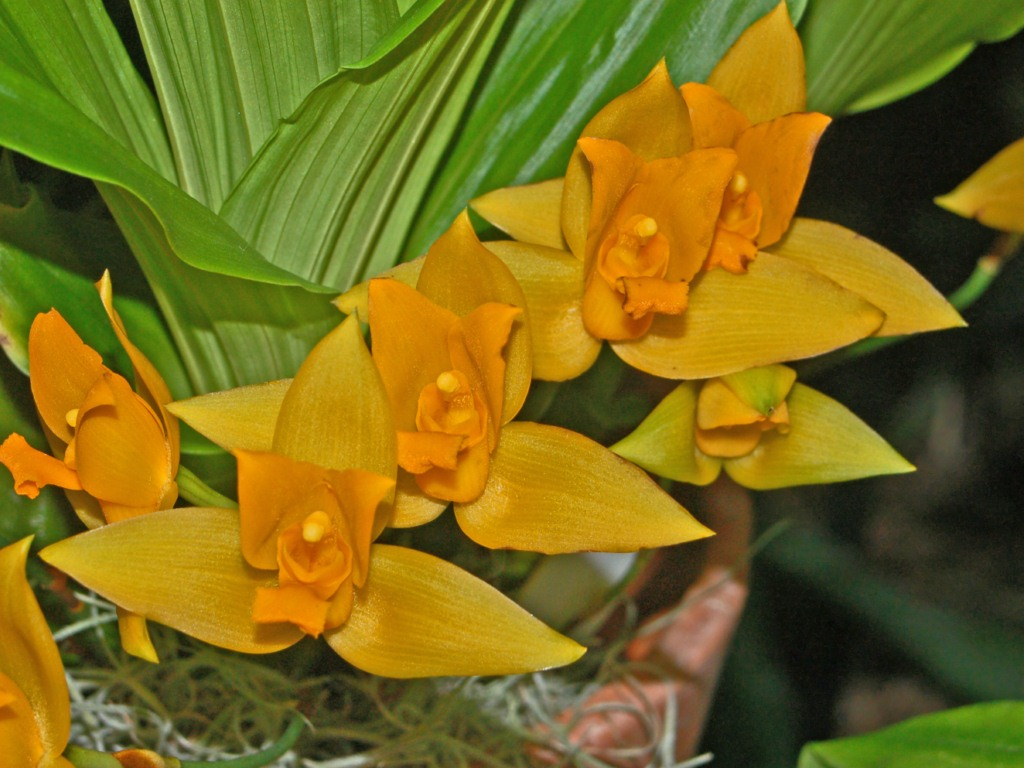 Lycaste aromatica - Botanical Gardens of Niagara Falls